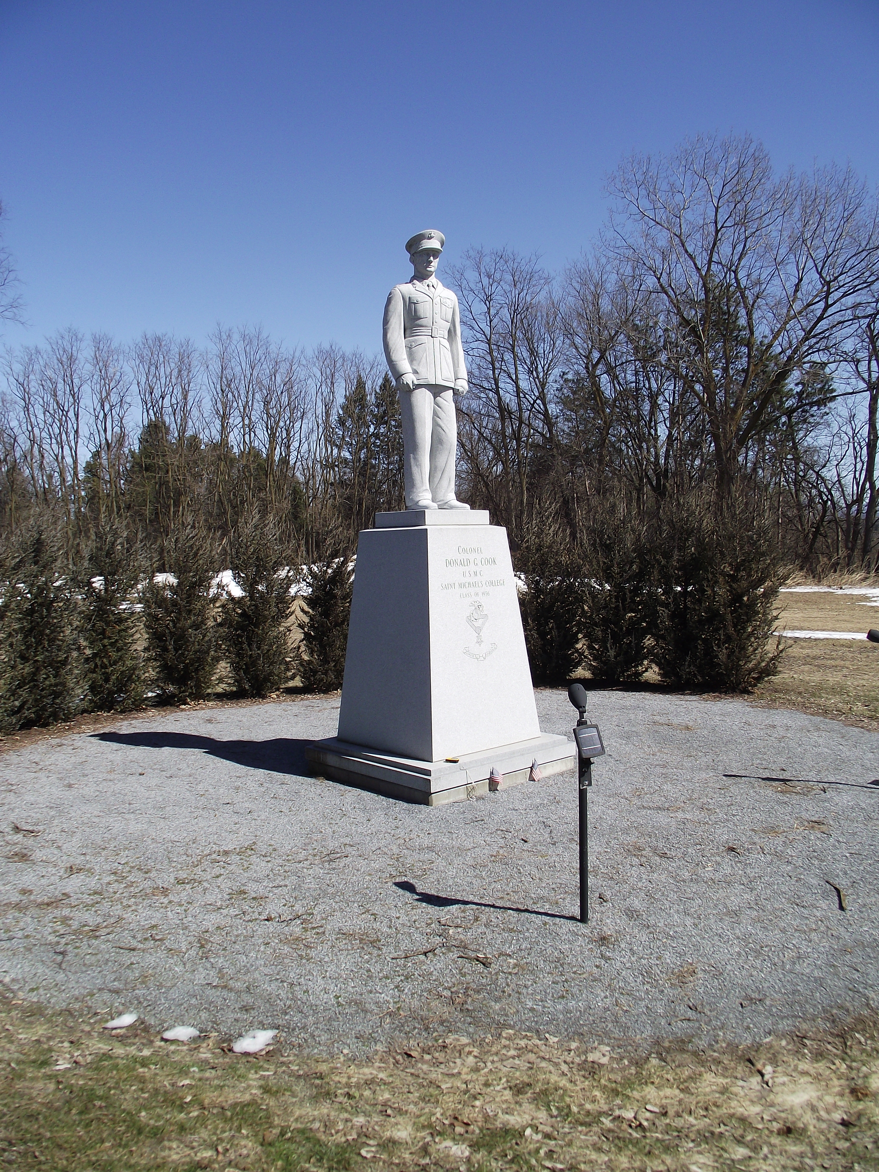 Statue of USMC Colonel Donald Cook on the campus of St. Michael's College